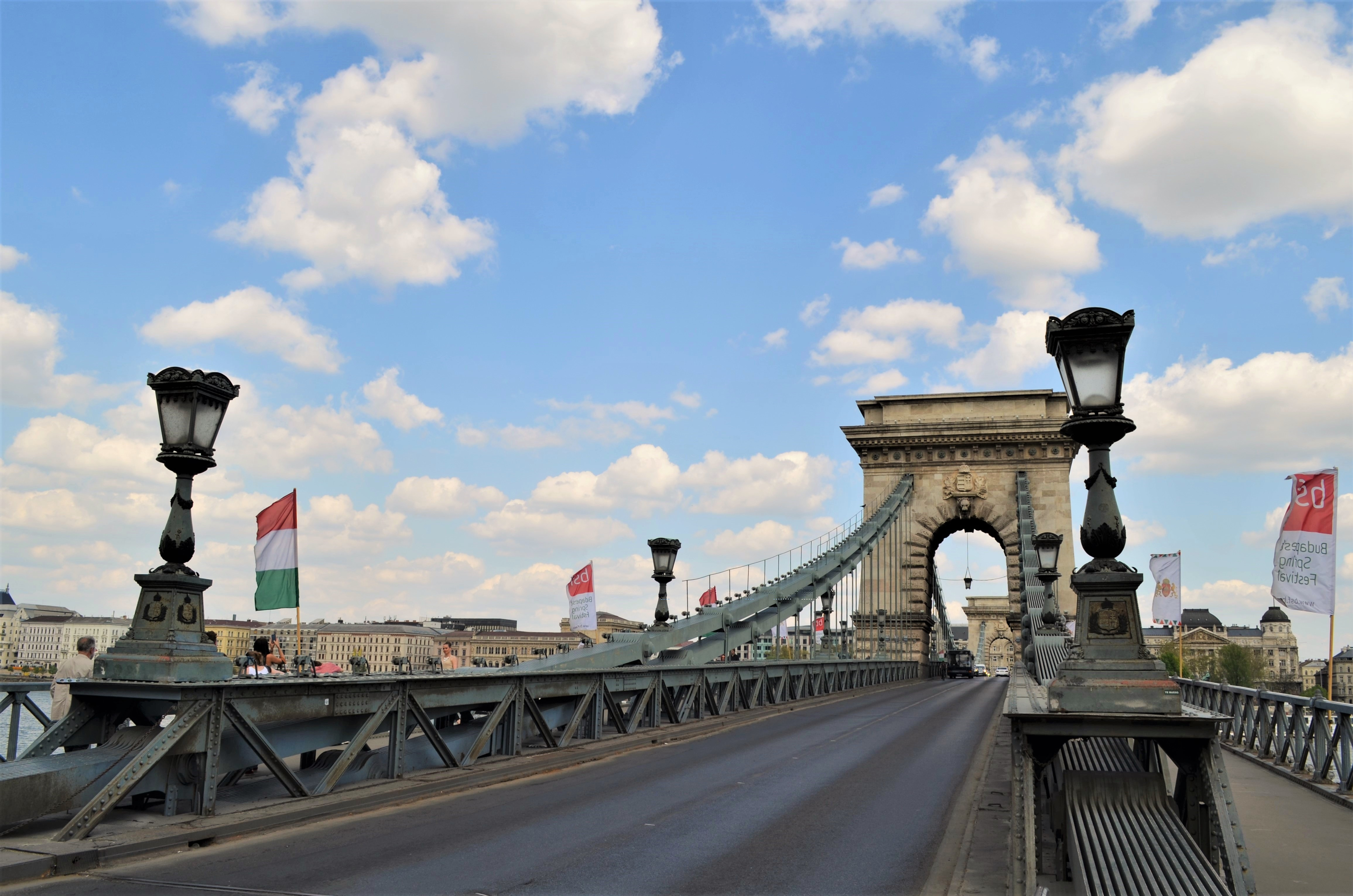 Széchenyi Chain Bridge in Budapest, april 2015